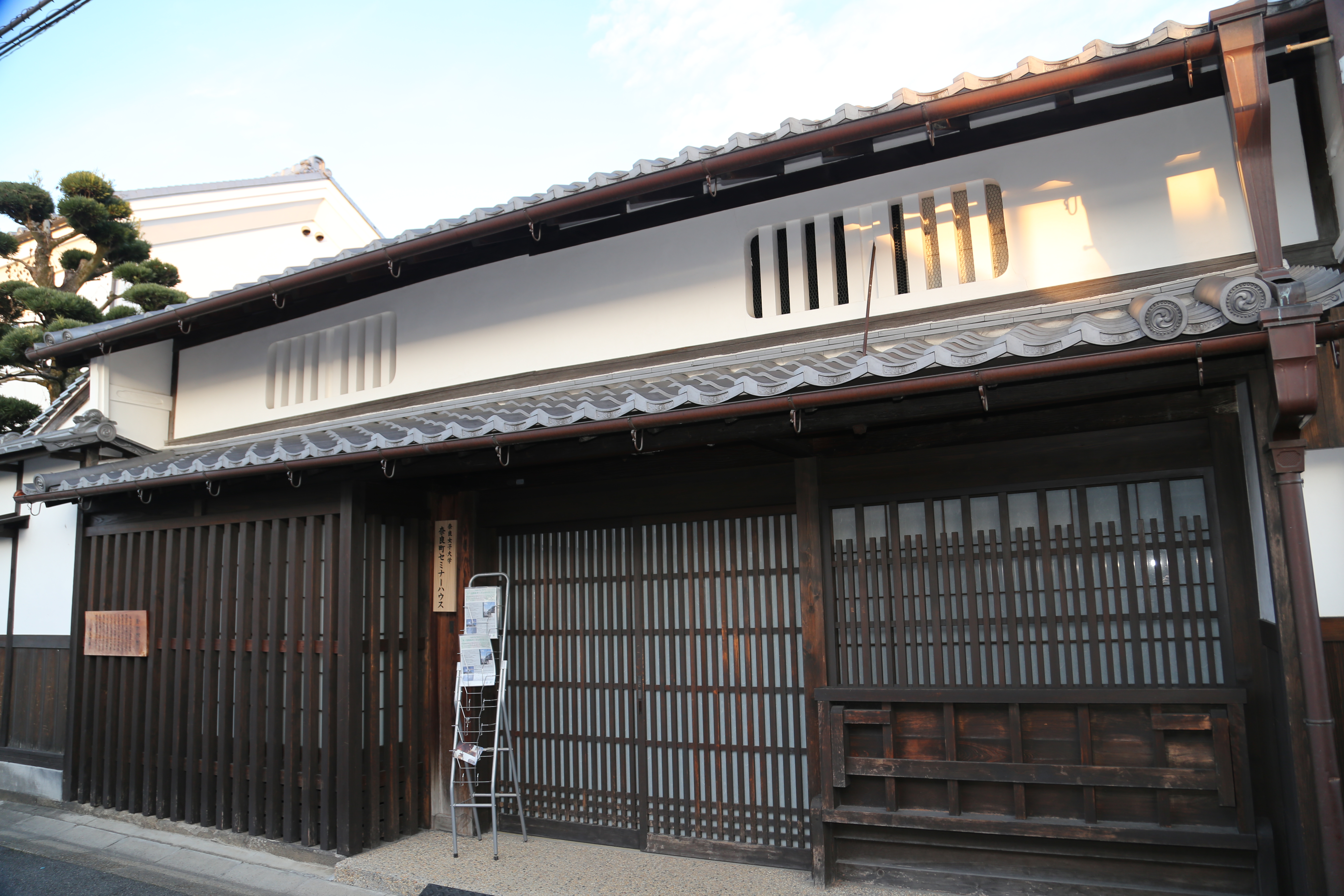 Nara Woman's University Naramachi Seminar House